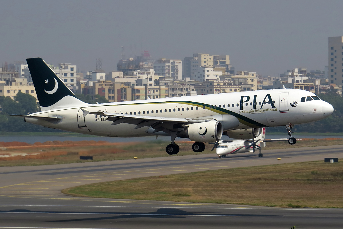 VGHS 20-02-16 | Keeping S2-AGR on hold.